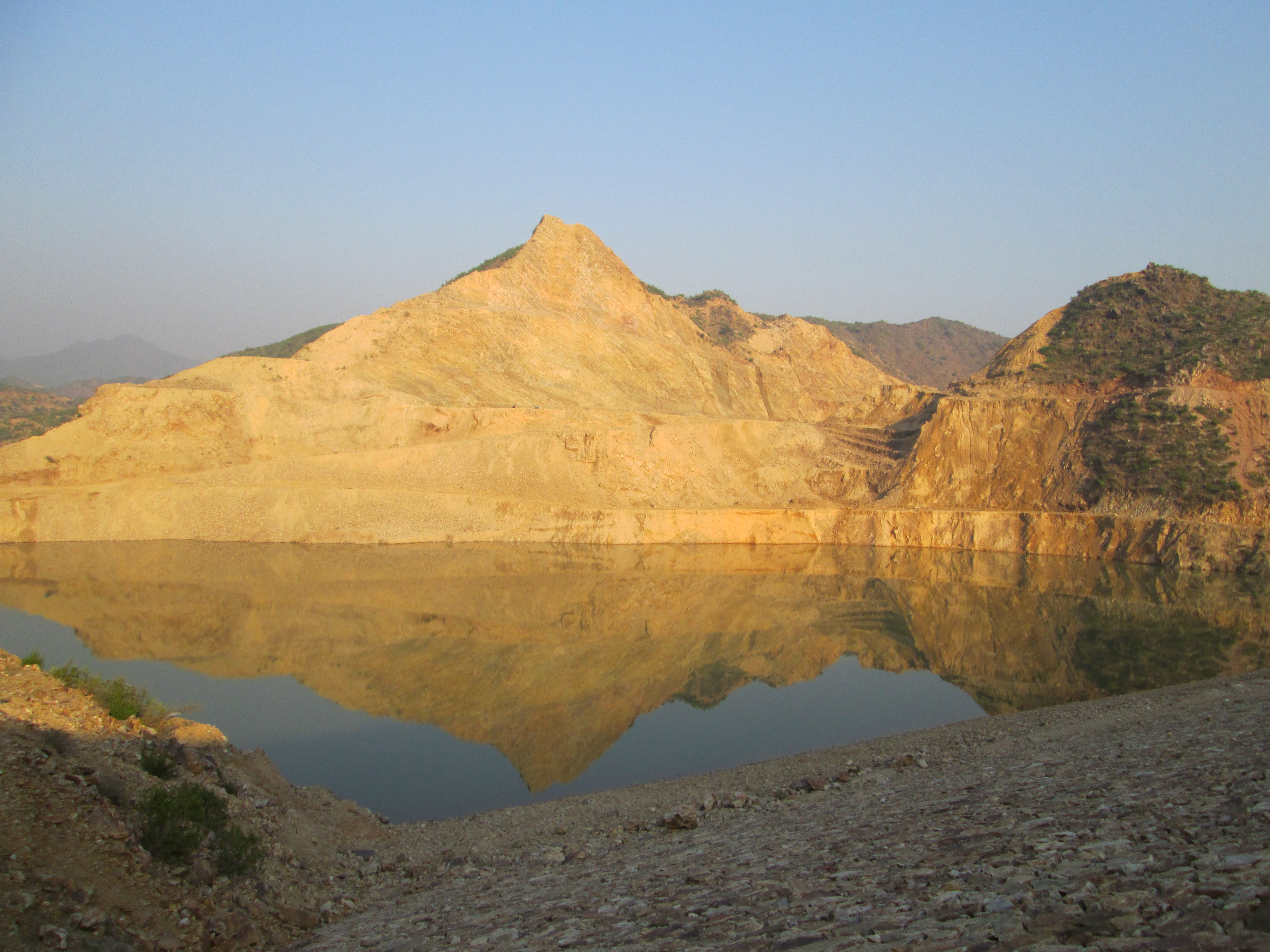 Kundal Dam under-construction view